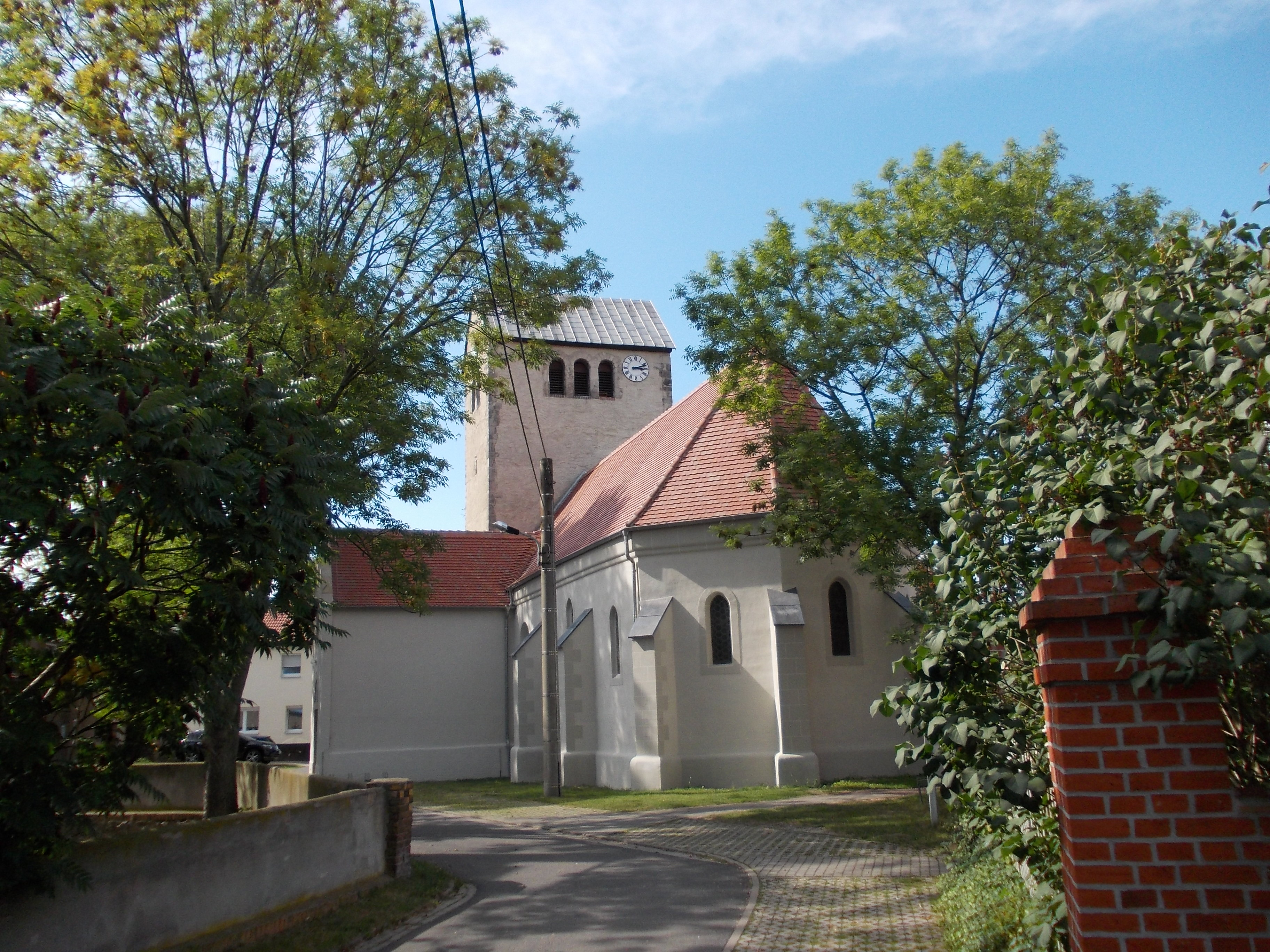 St. Michael's Church in Lissa (Neukyhna, Nordsachsen district, Saxony)